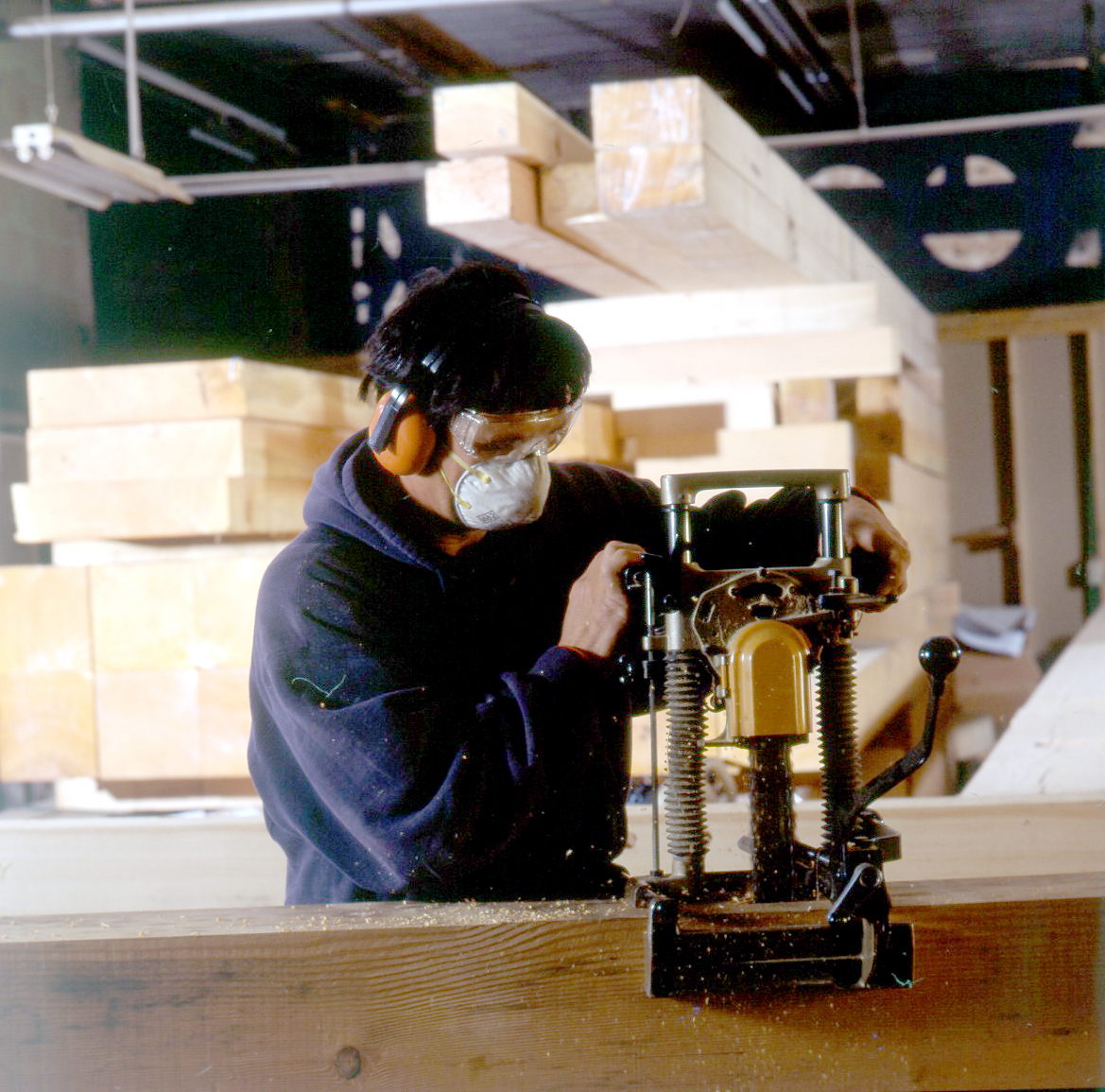 A worker uses a specialized tool called a mortising machine to notch joints in timbers.